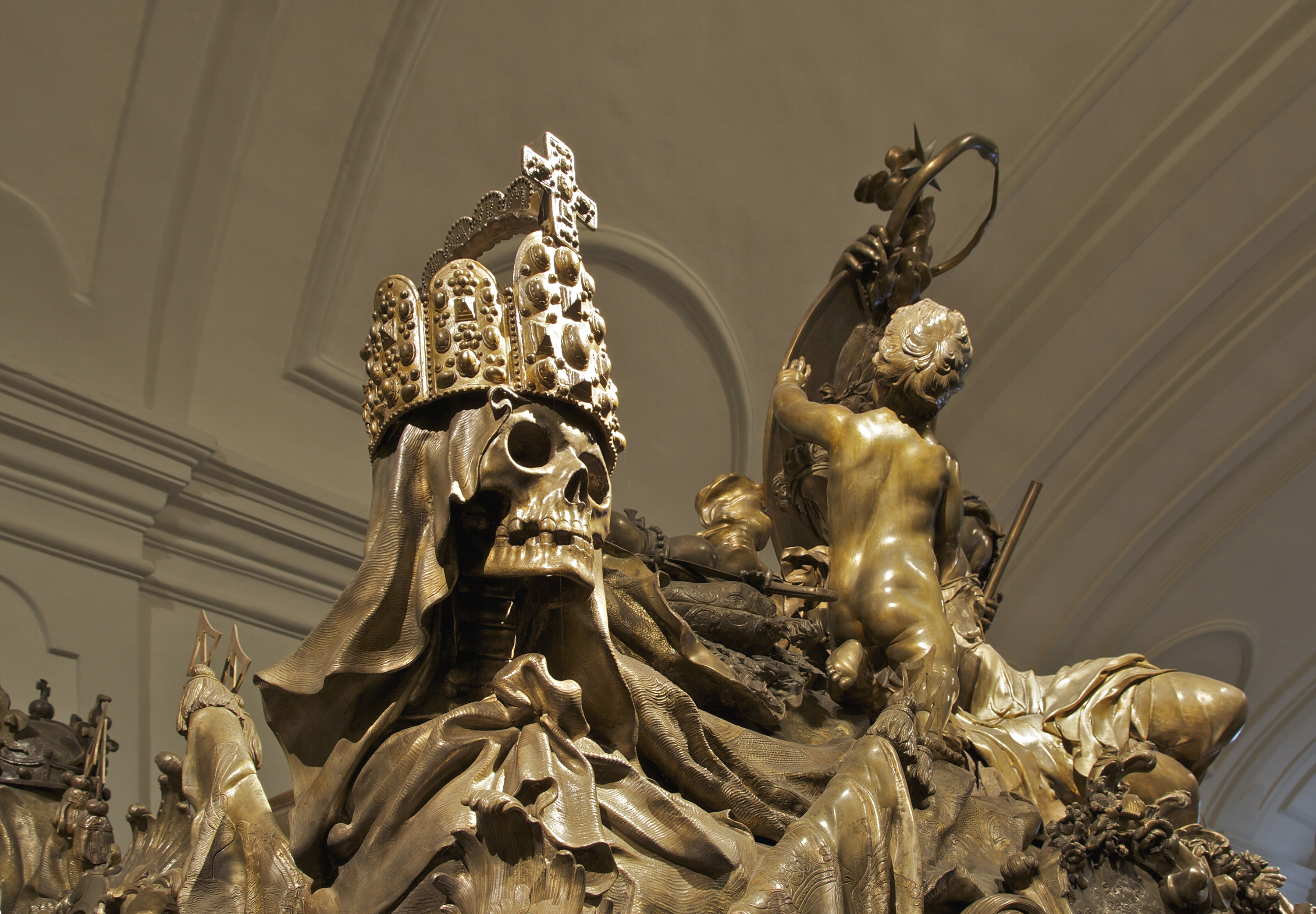 Detail of the sarcophagus of Charles VI, Holy Roman Emperor, Kaisergruft, Vienna, Austria.